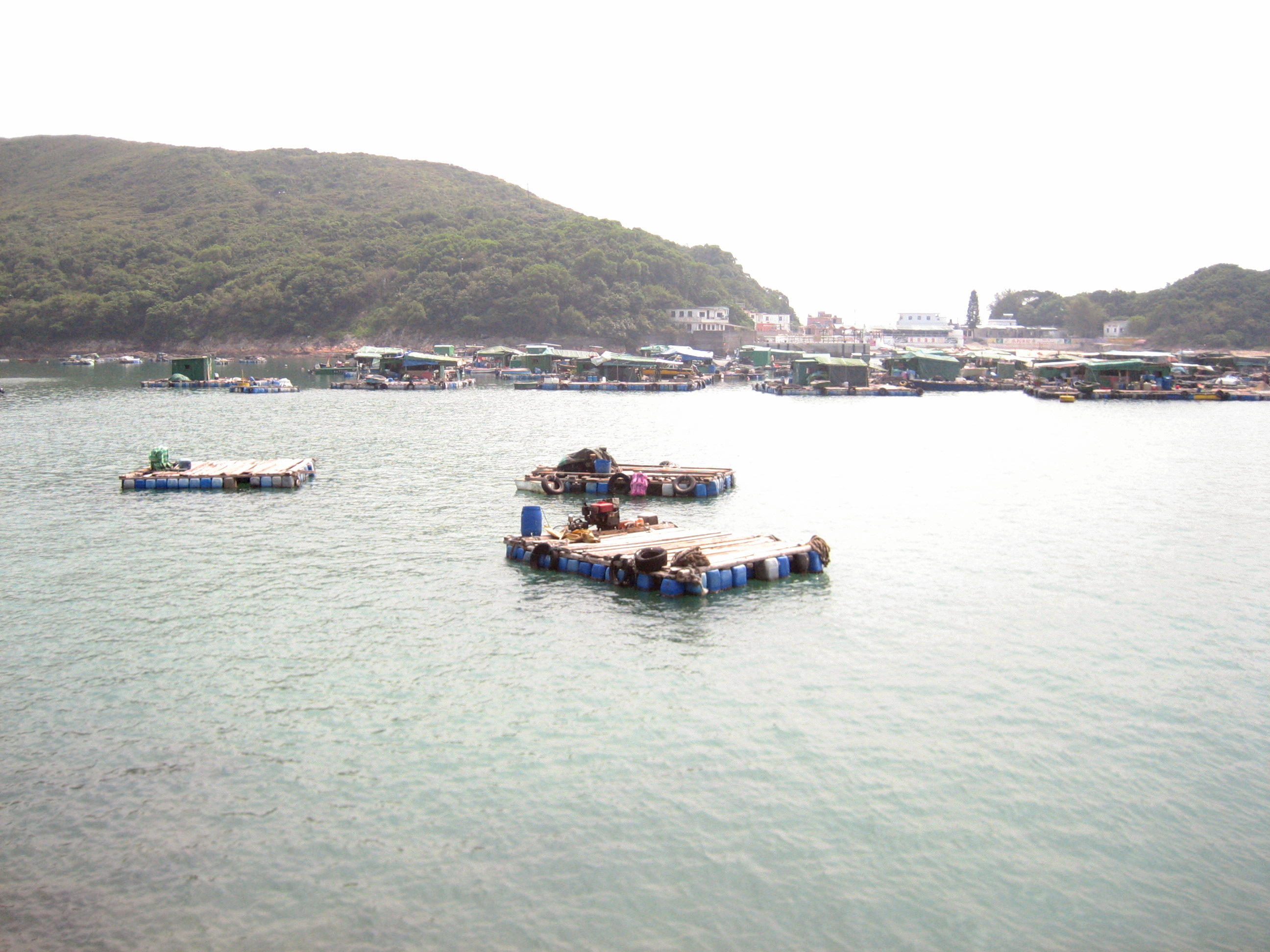 Rafts used for fish farming in High Island, Hong Kong.